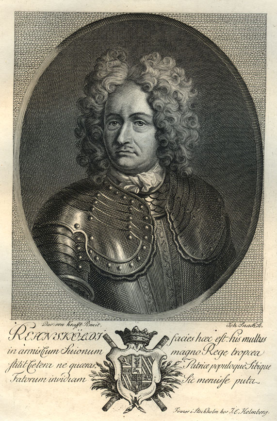 Baron and field marshal Carl Gustaf Rehnskiöld.